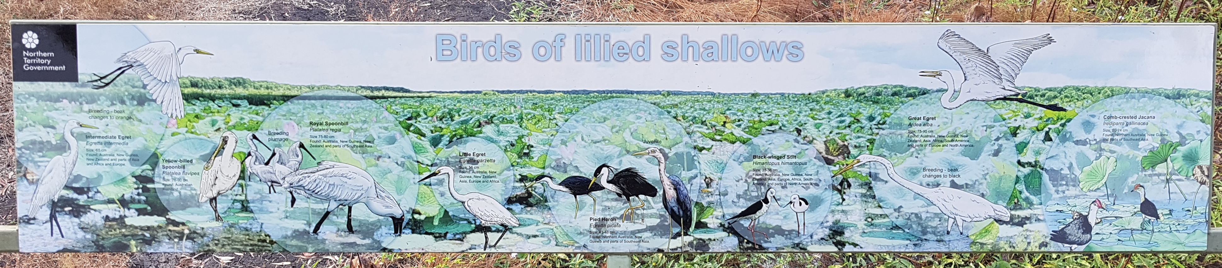 Fogg Dam signs - Birds of the Lilied Shallows